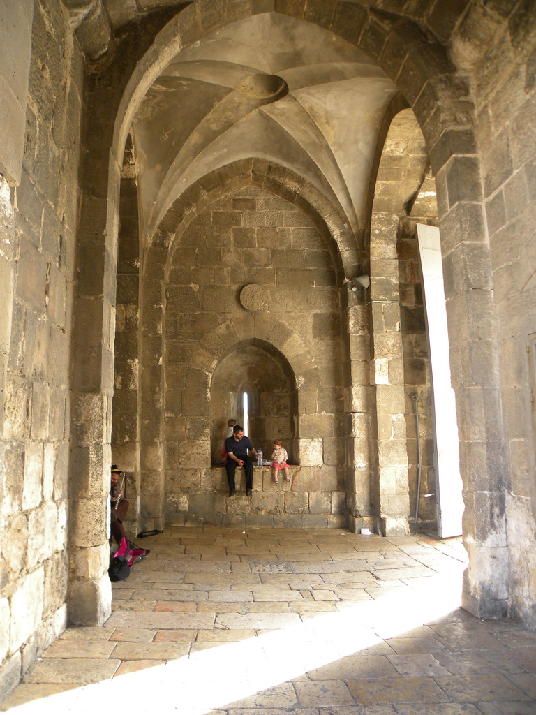 Old Jerusalem, Jaffa Gate interior